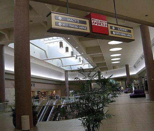 Inside view of Cupertino Square Shopping Center.